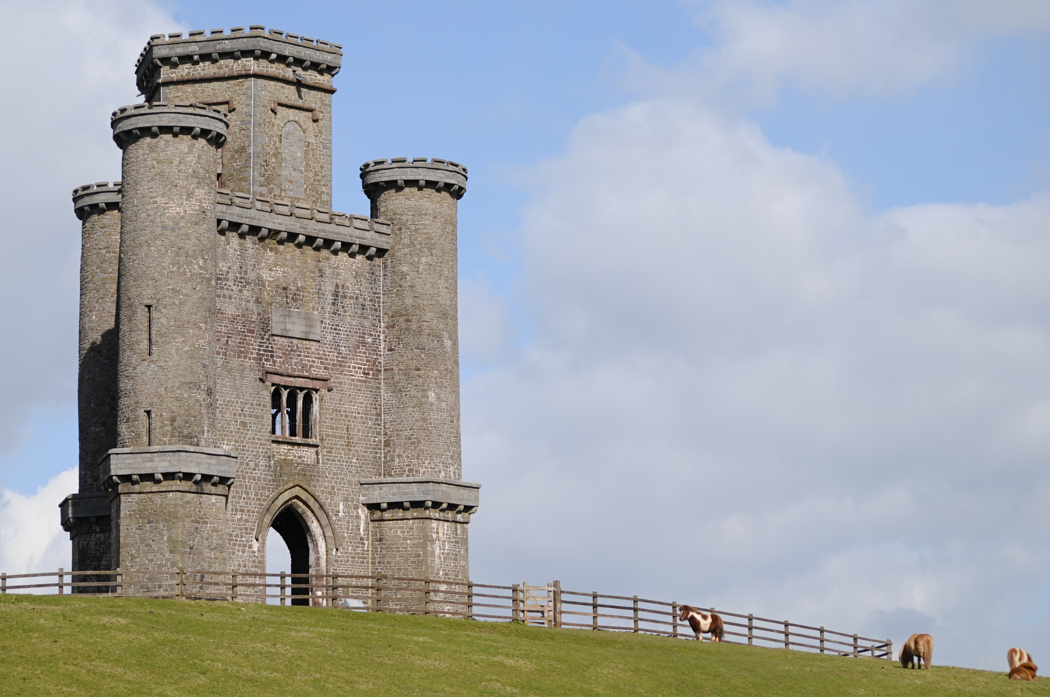 Paxton's Tower near Llanarthne, Carmarthenshire. Built at Middleton Hall estate c.1808-1815.